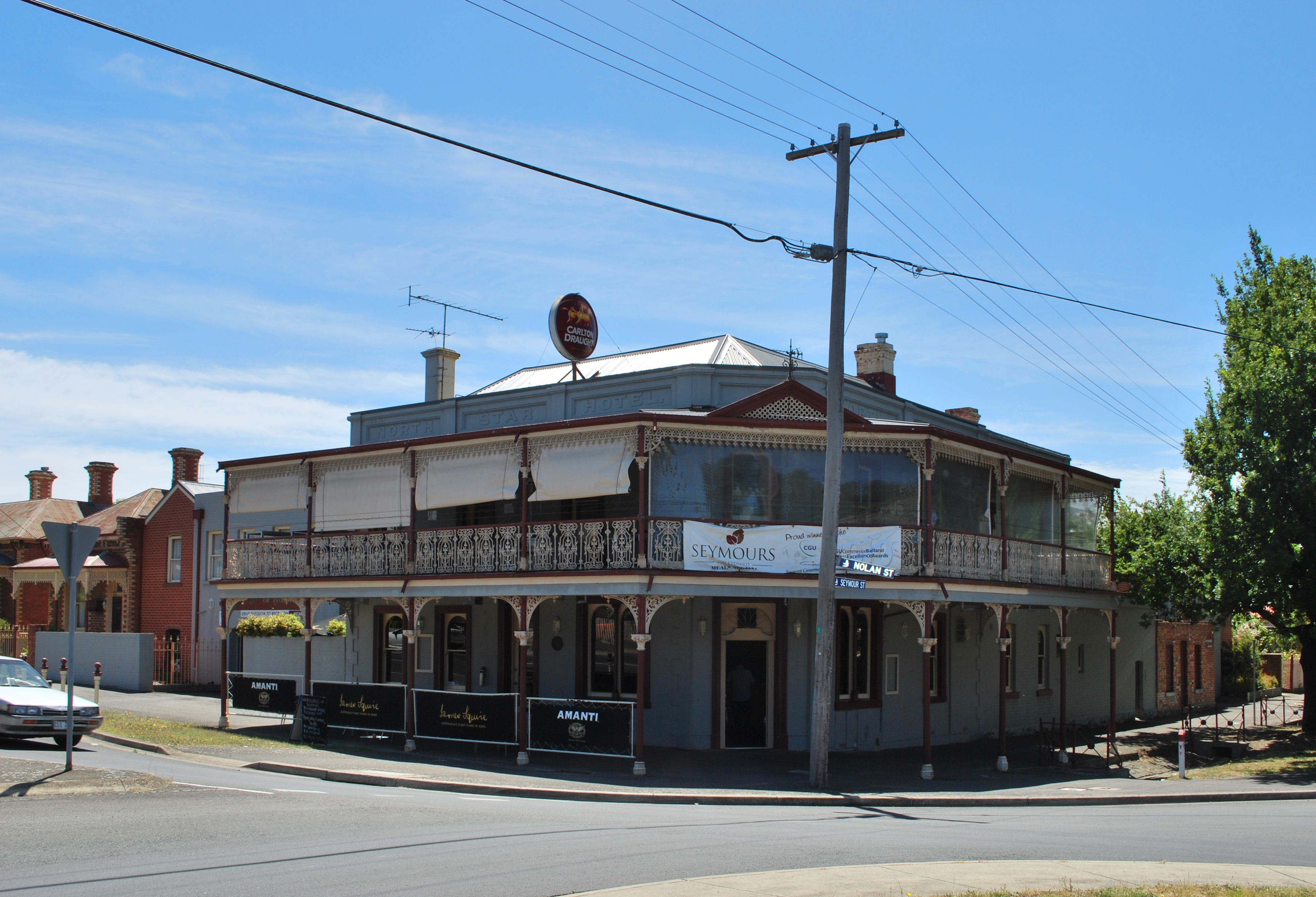 North Star Hotel, trading as "Seymour's" at Soldiers Hill, Victoria